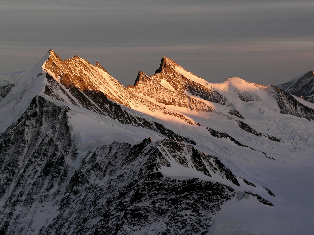 From left to right, Grosses (4 049 m) and Hinteres Fiescherhorn (4 025 m), then Kleines (3 913 m) and Grosses Grünhorn (4 044 m), seen from north in the evening, setting sun. Bernese Alps